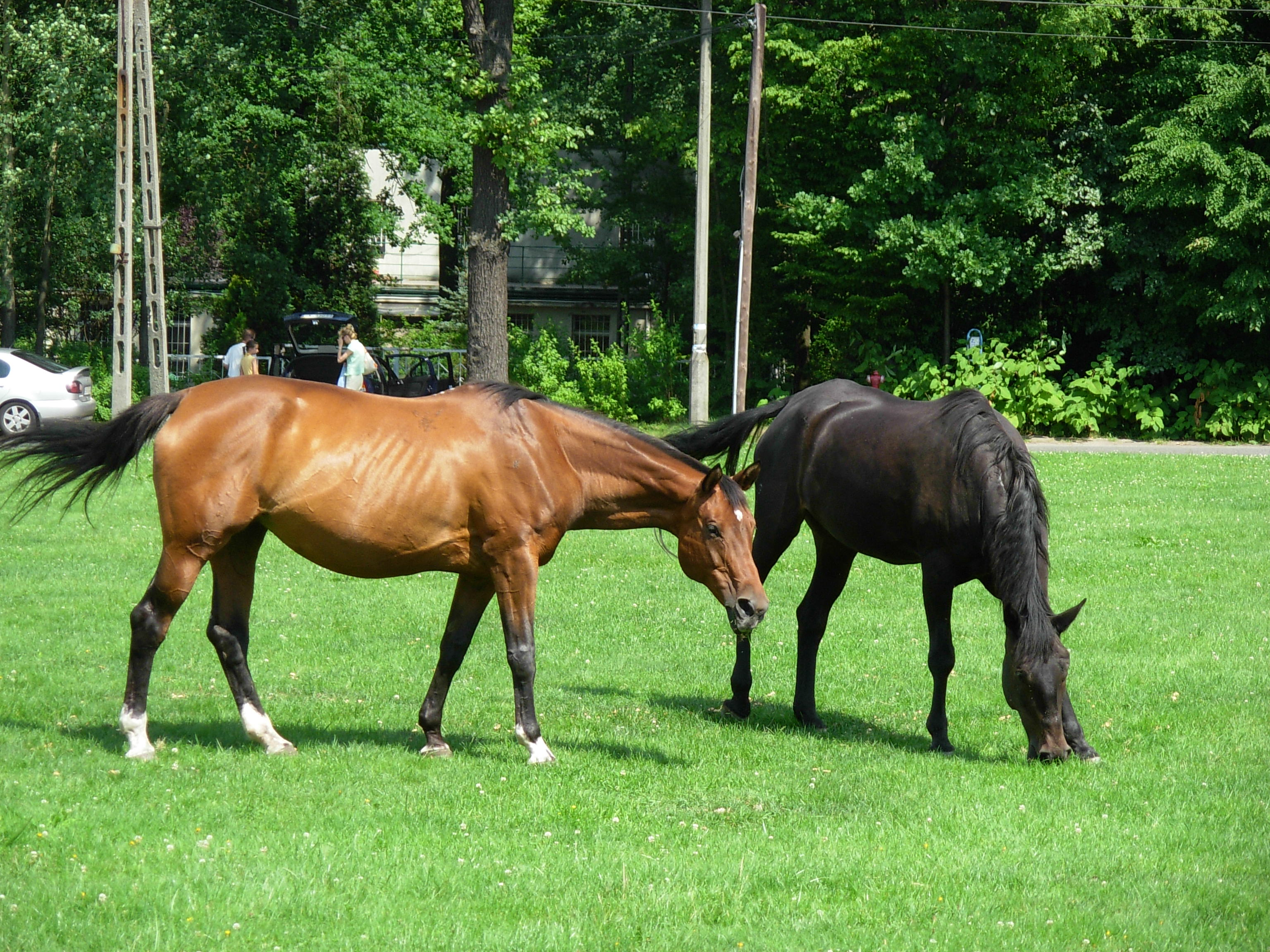 A "regular" bay horse and a brown one. Note the light coloured nose.